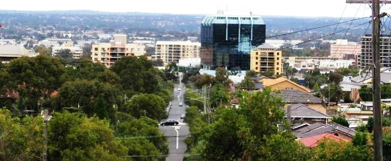 Bankstown CBD skyline as seen from the elevated end of Jacobs Street.